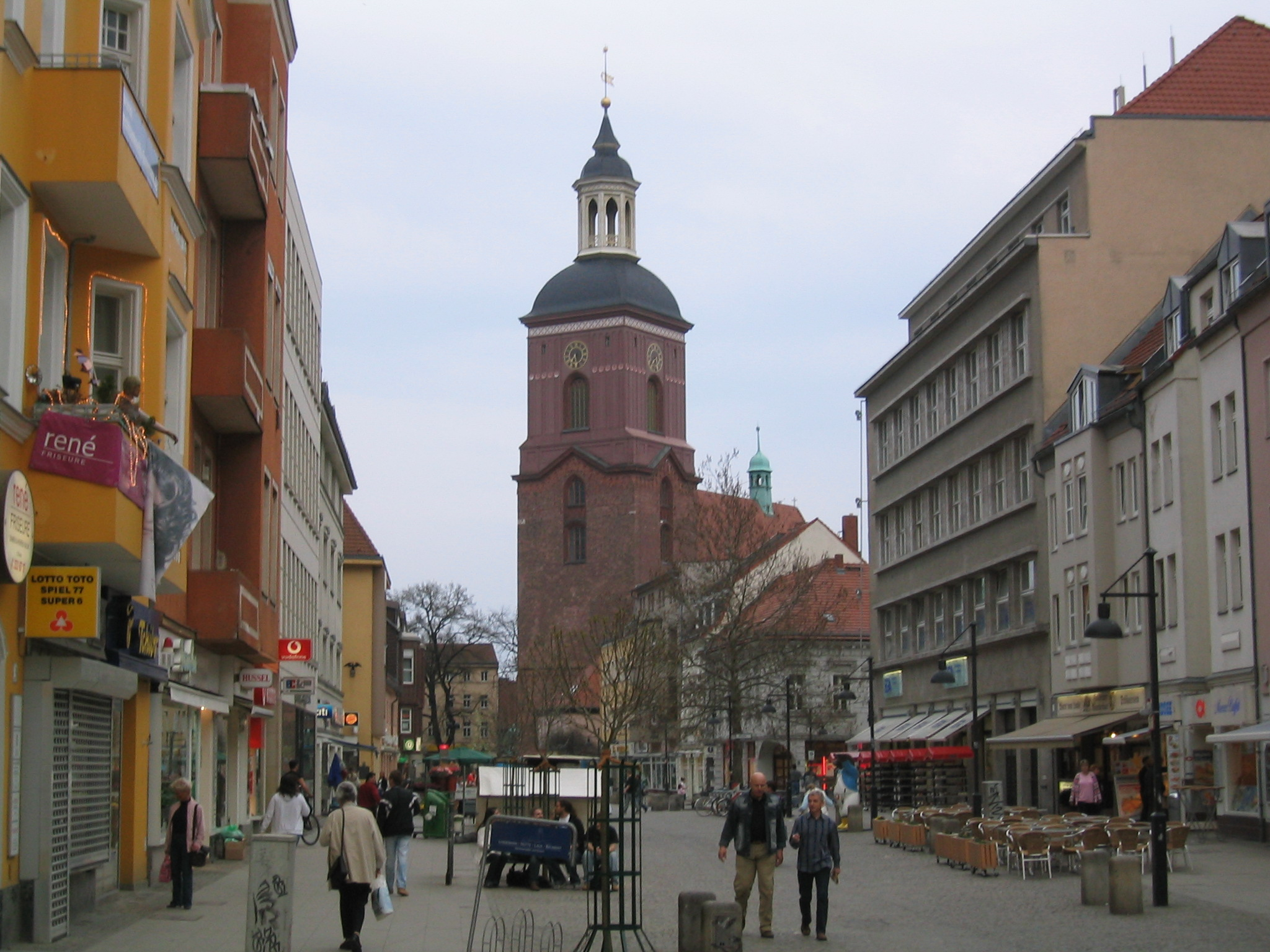 Berlin-Spandau: view from Carl-Schurz-Straße to the St. Nikolaikirche